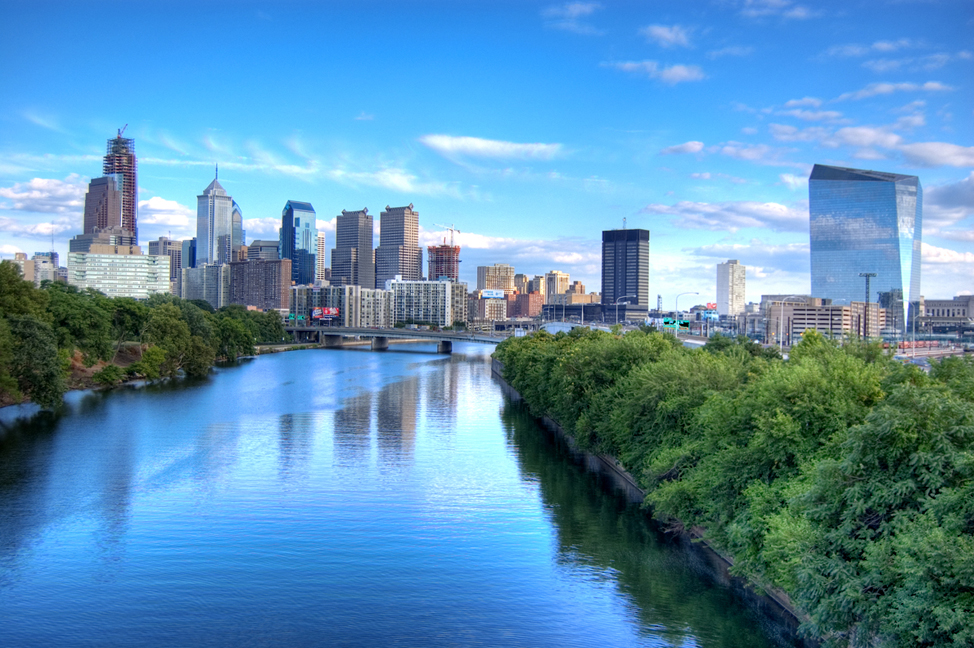 This is my own work, Public Domain Photograph, not copyrighted Ed Yakovich